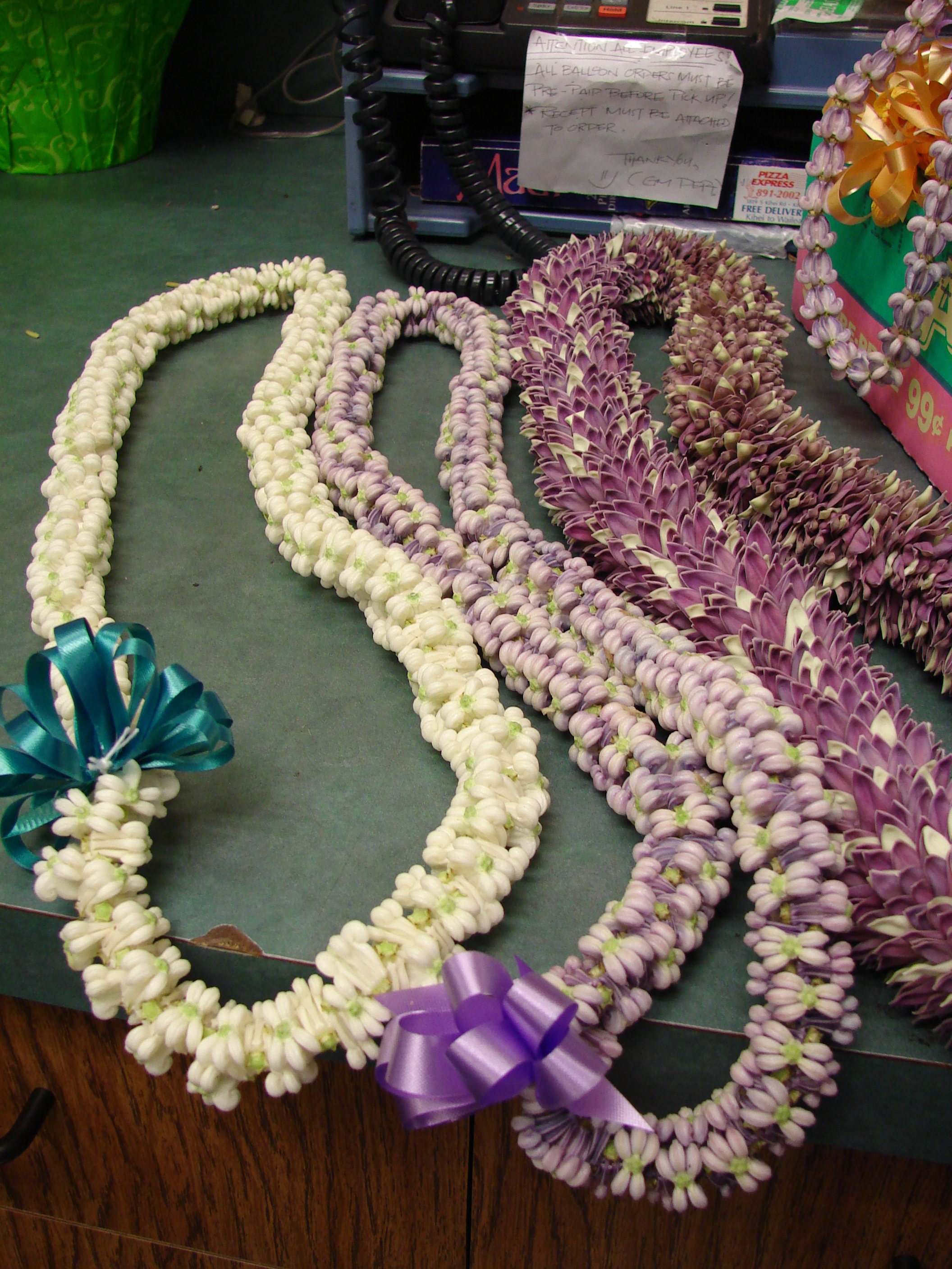 Calotropis gigantea (assorted leis). Location: Maui, Foodland Pukalani